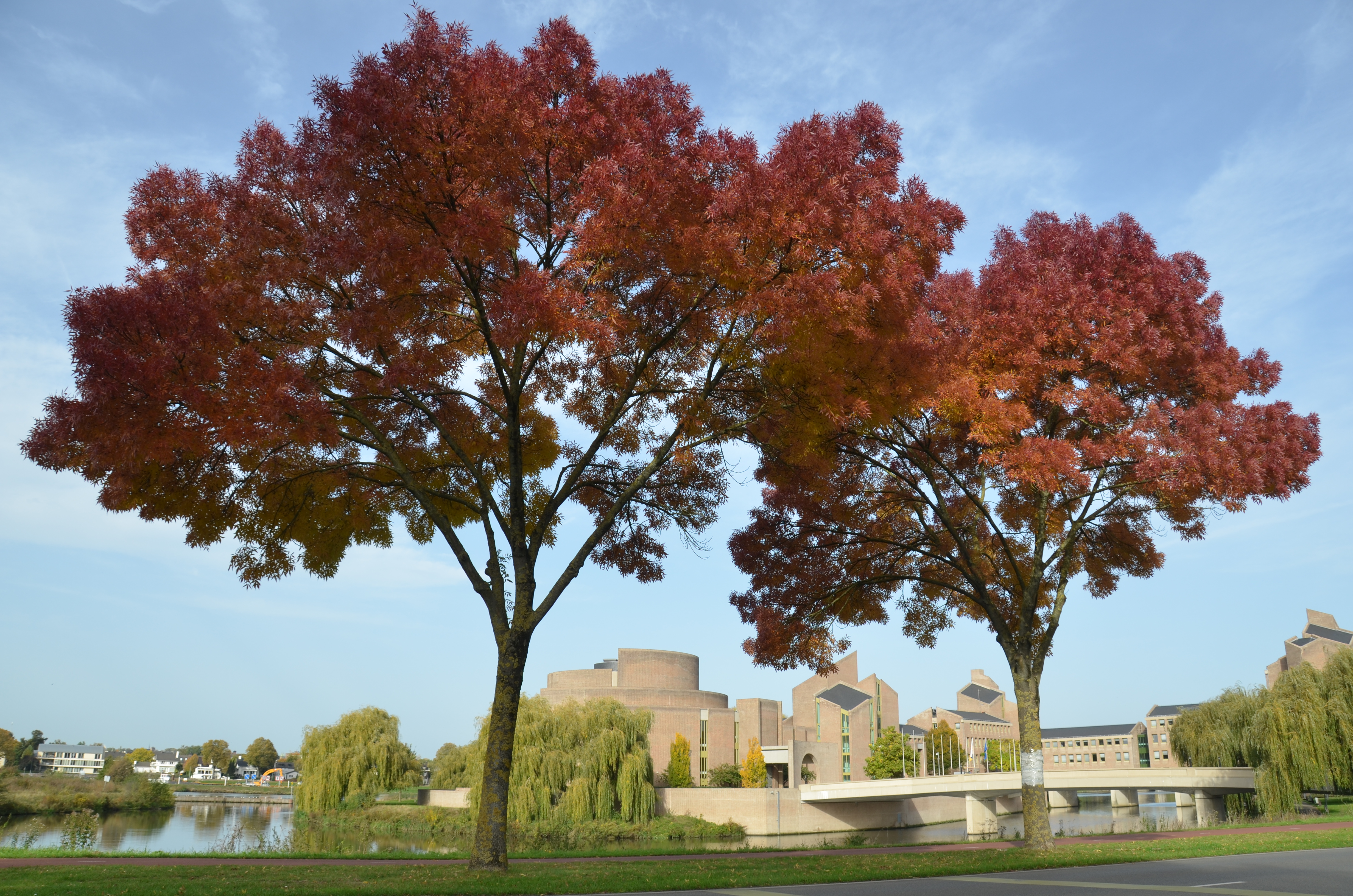 The Provincie counsel building (the "Gouvernement") 1986 designed by architect Snelder along the Maasriver at Maastricht with magnificient coloured trees at 19 October 2012